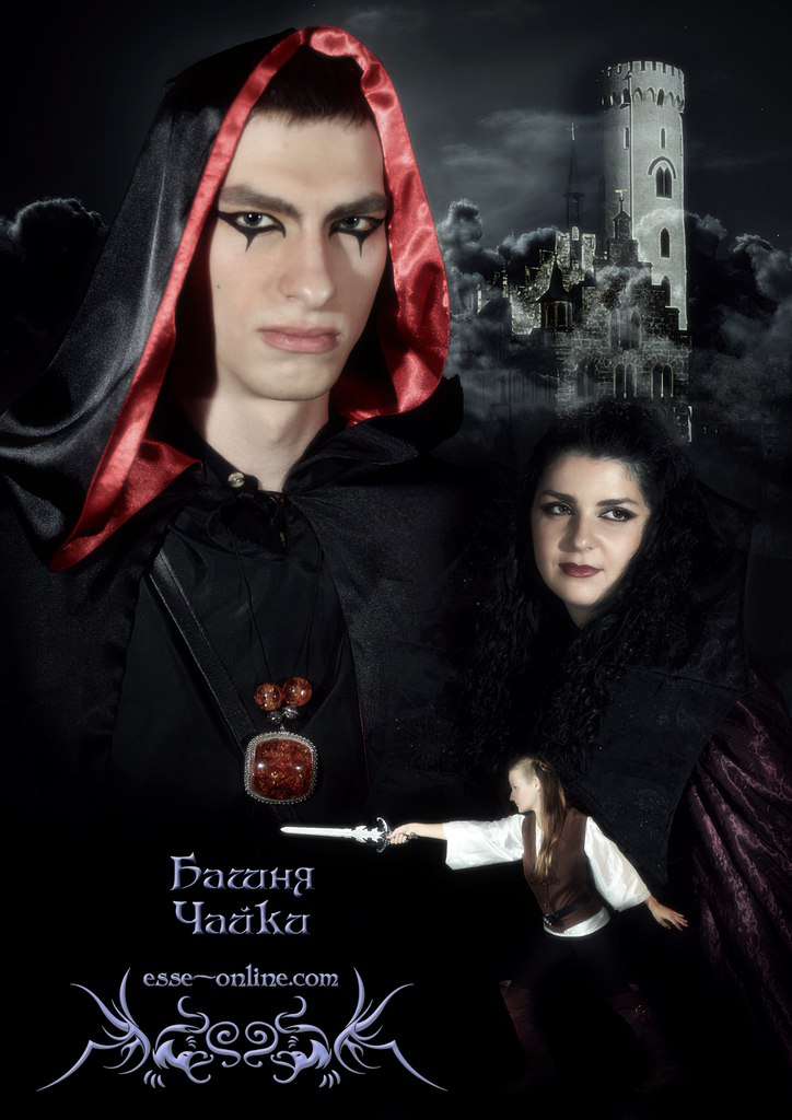 "Tower Seagulls". Fantasy rock musical of group "ESSE" -"The Road with No Return", based on the saga of A. Sapkowski "The Witcher". Official poster. Scene 7. Symphonic rock-group "ESSE". Yury Sklyar (Vilgeforz of Roggeveen), Lyudmila Dymkova (Yennefer of Vengerberg), Darya Pronina (Cirilla Fiona Elen Riannon' (Ciri or the Lion Cub of Cintra), Zireael. Swallow). Poster - Taras Trushkin. Photo - Yuri Osadchy.